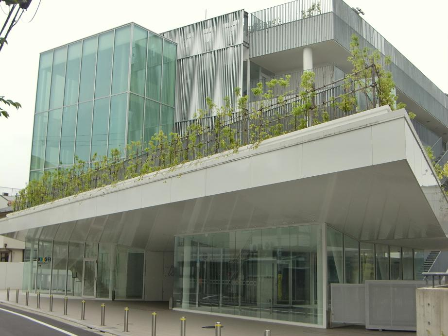 Tokyo Kogei Daigaku(Tokyo Polytechnic University) Nakano Campus in Tokyo, Japan.